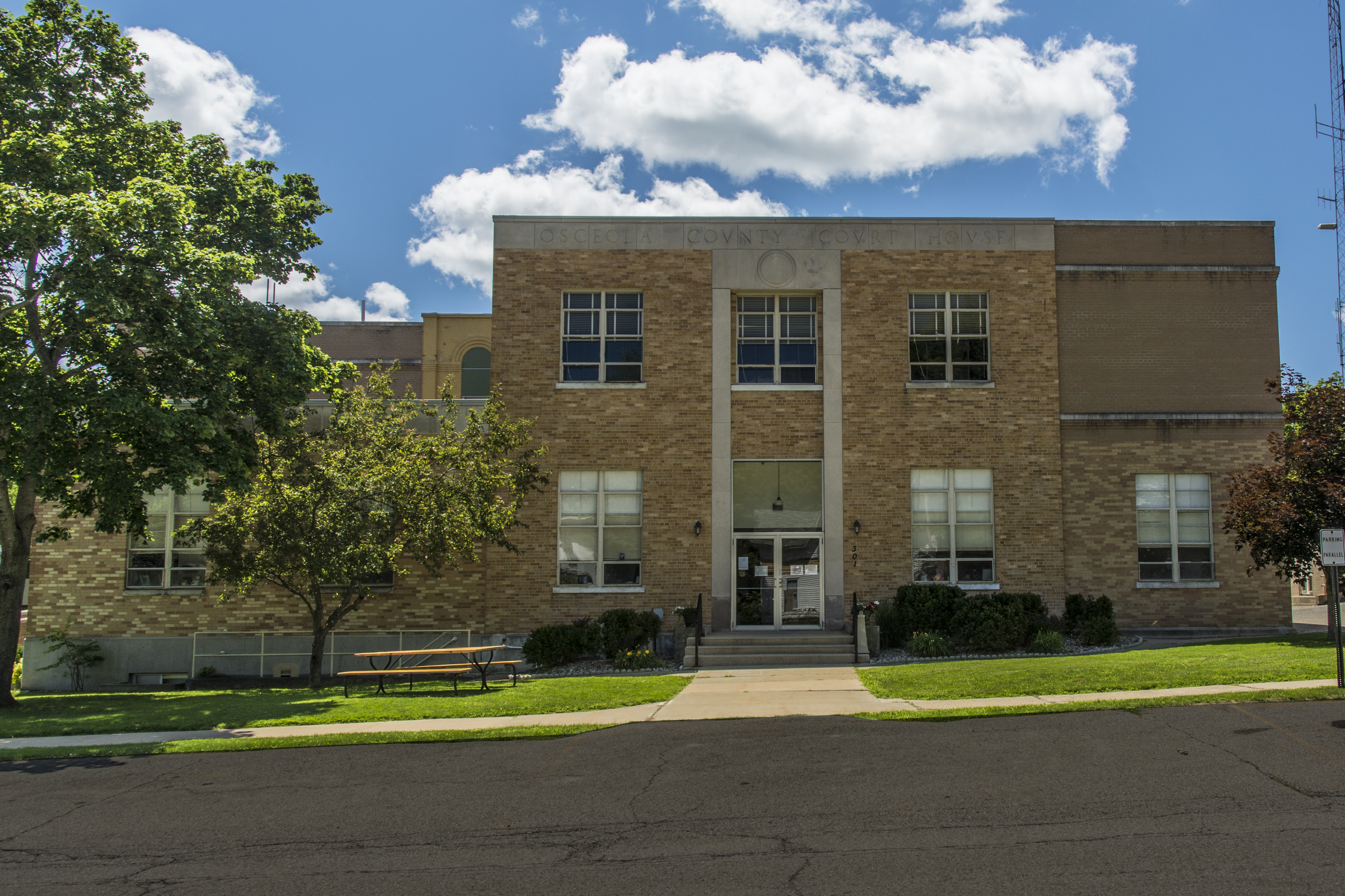 Oceola County Michigan Courthouse (Reed City)